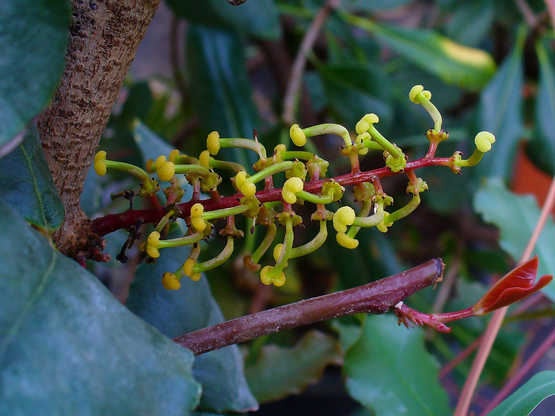 Ceratonia siliqua Labill., Carob Tree, female flowers. Stutensee, Germany